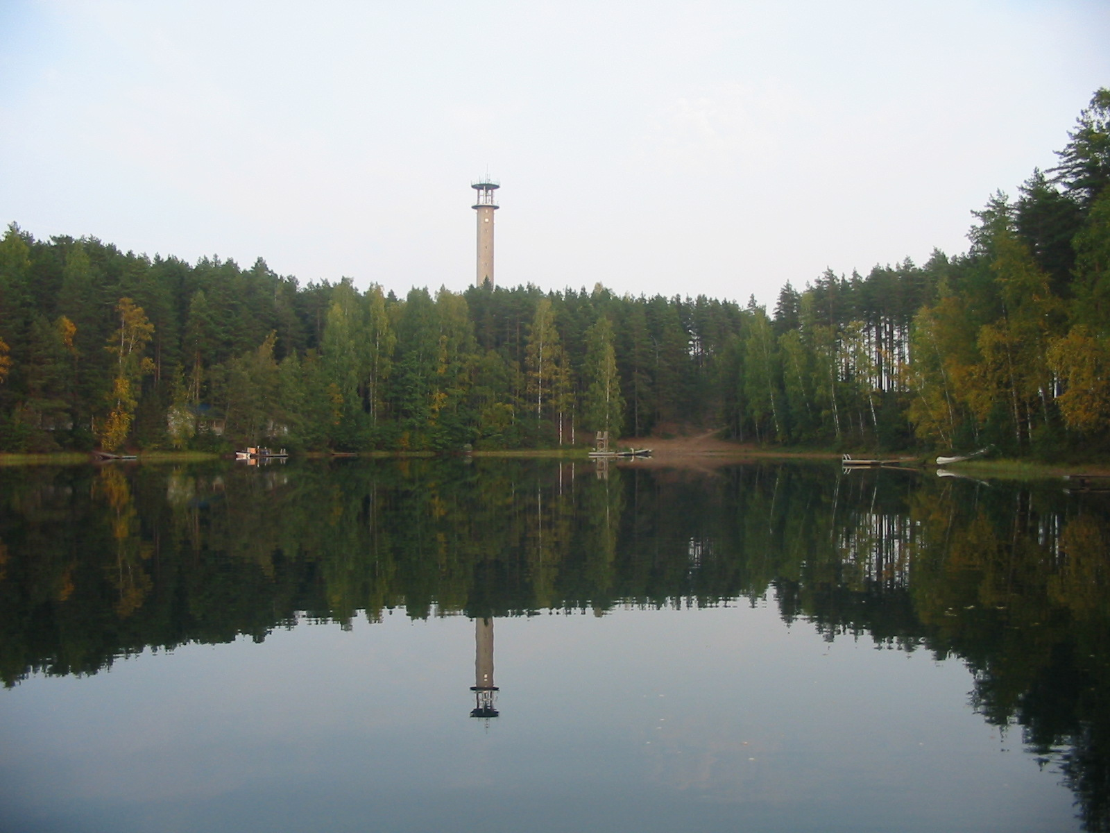 Lake Nummijärvi in Kuusjoki, Salo, Finland Proper